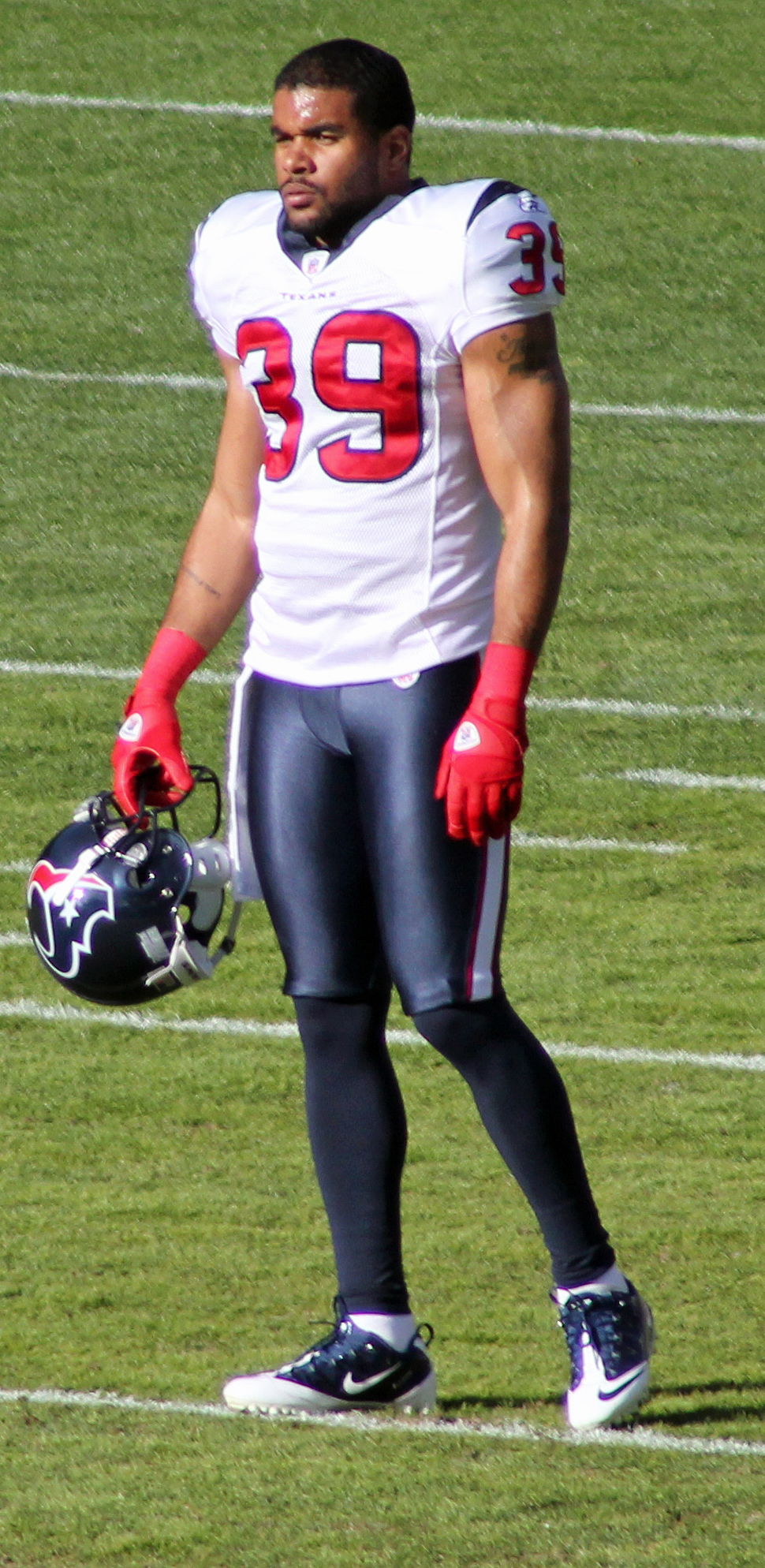 Quintin Demps, a player on the Houston Texans American football team.